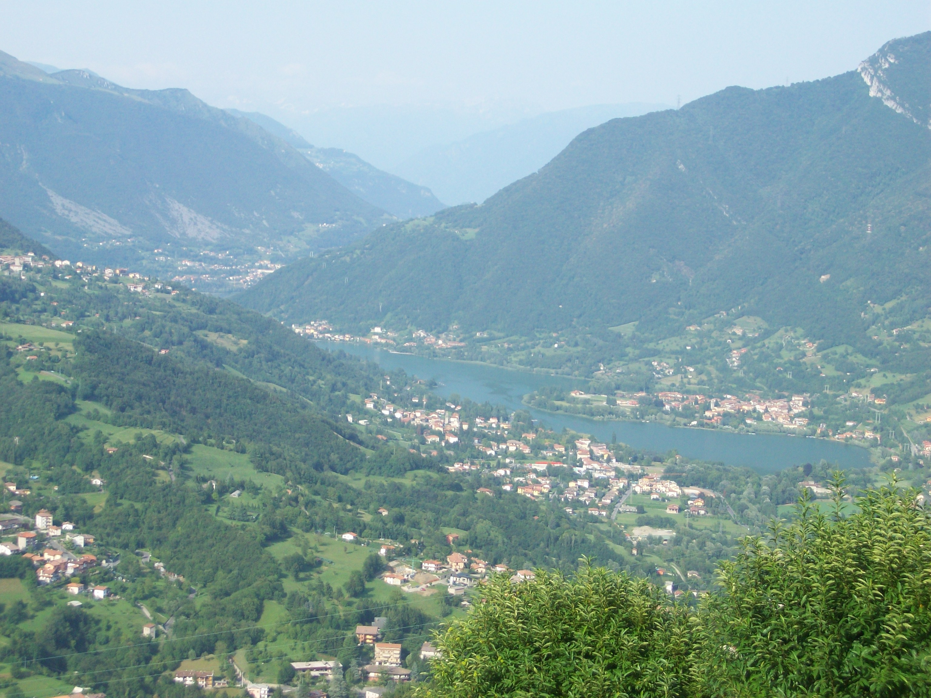 Lake Endine seen from Colle Gallo, Gaverina Terme Municipality